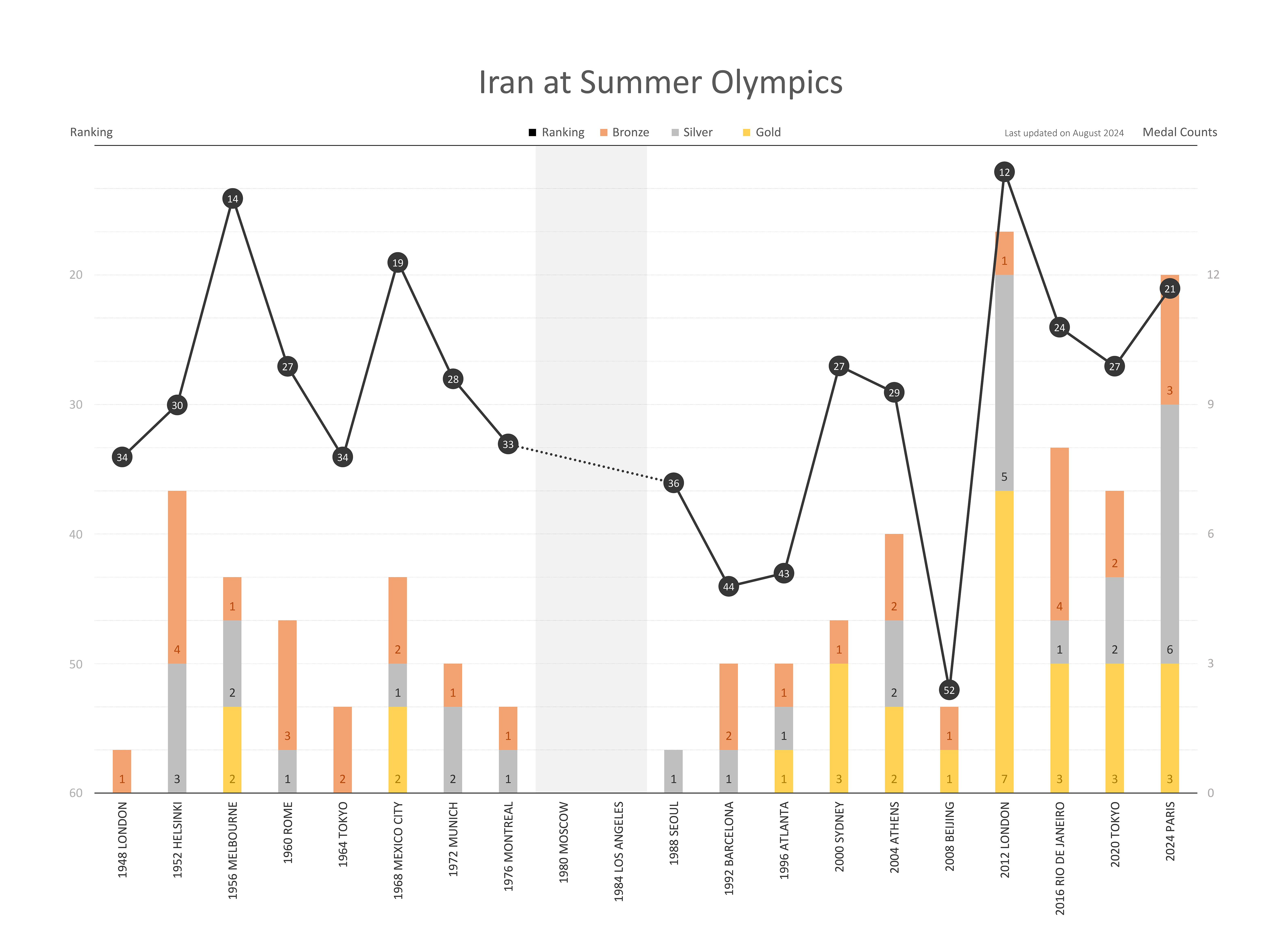 This chart shows the performance of Iranian athletes in various summer olympic games events